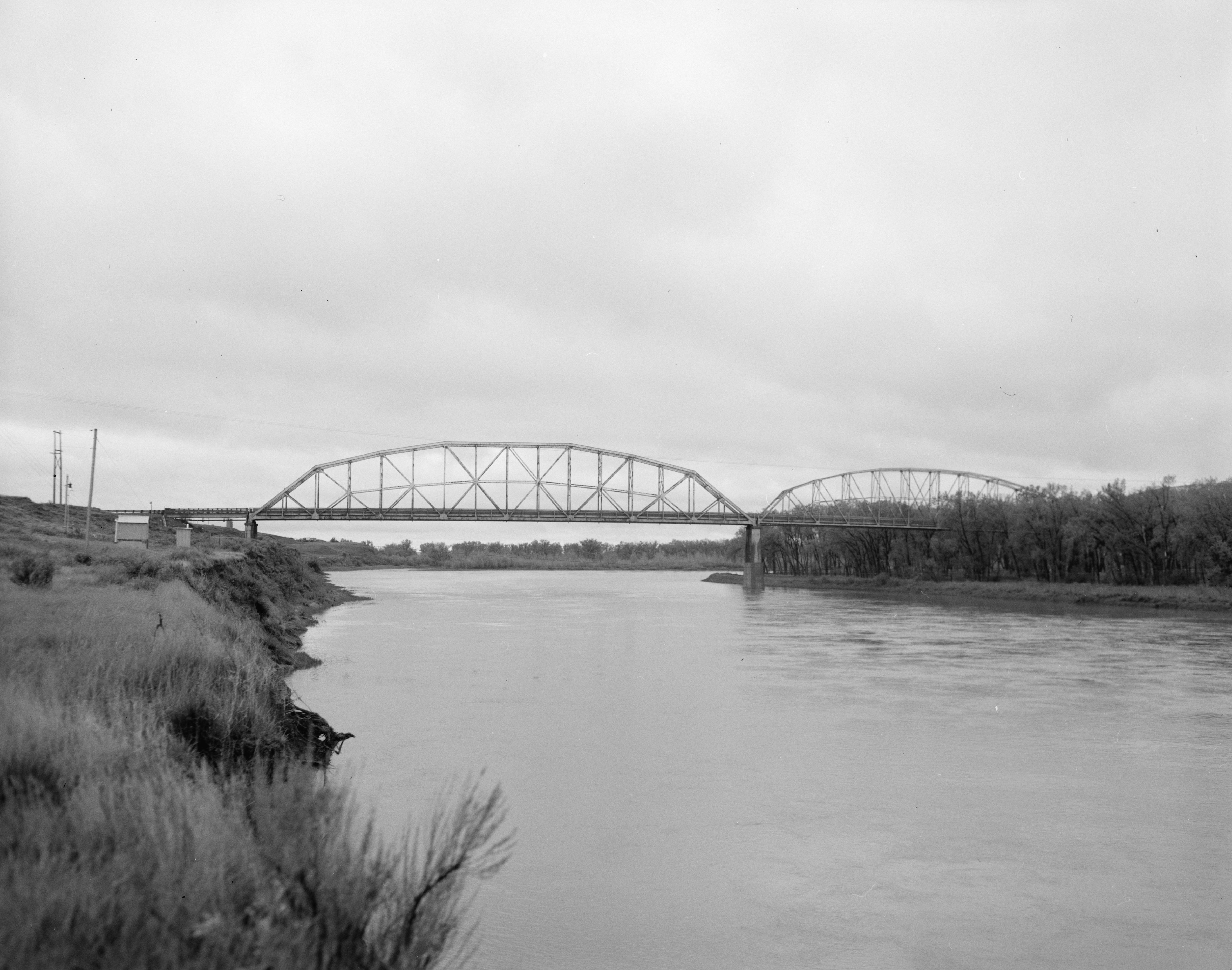 View from upstream of the Lewis and Clark Bridge (also called the Wolf Point Bridge) near Wolf Point, Montana, United States. The Pennsylvania through truss bridge carries Montana Highway 13 over the Missouri River between McCone and Roosevelt counties. Built in 1930, the bridge is listed on the National Register of Historic Places.